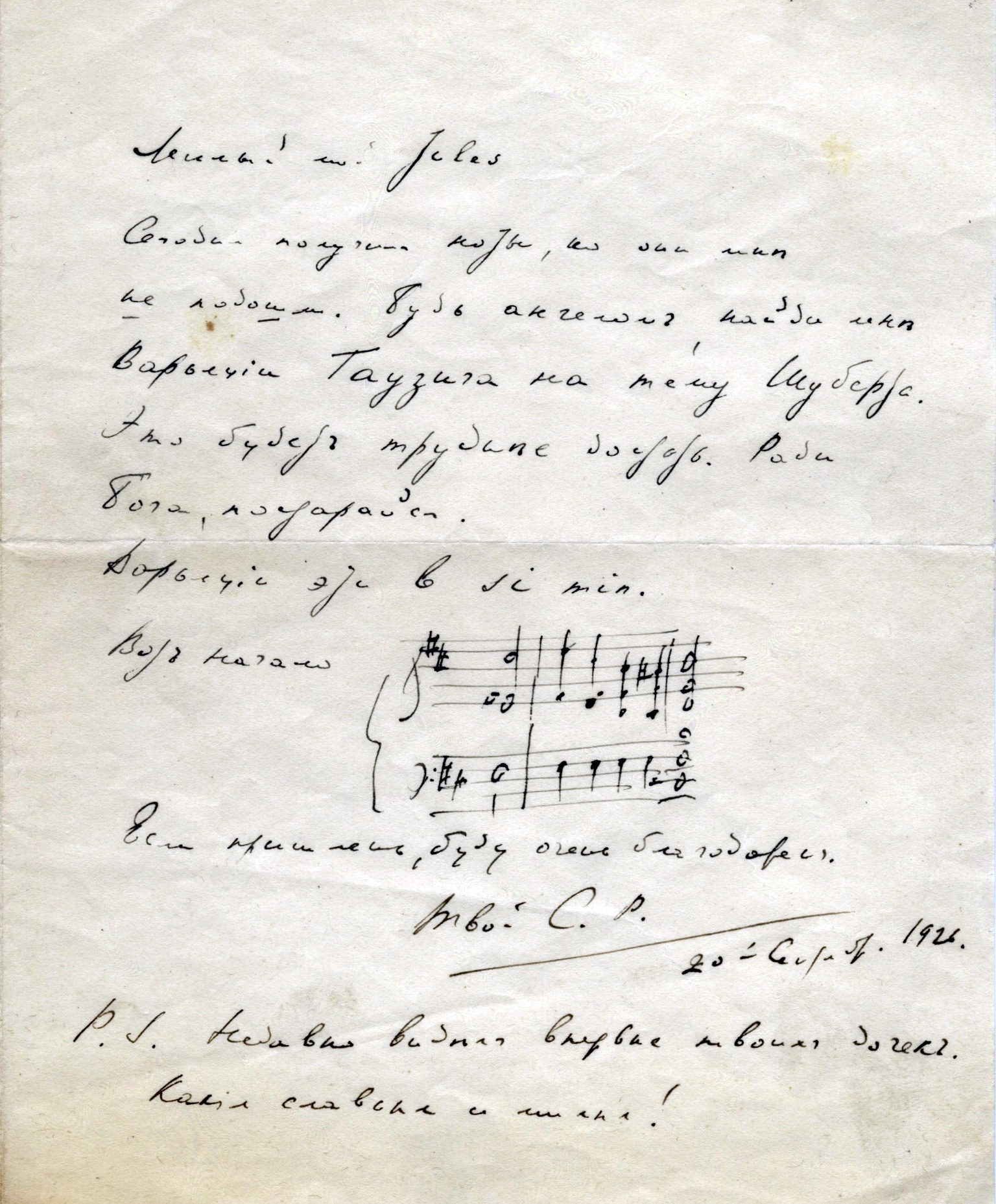 Letter (in Russian) from Sergei Rachmaninoff to a Mr. Jules, dated 1926